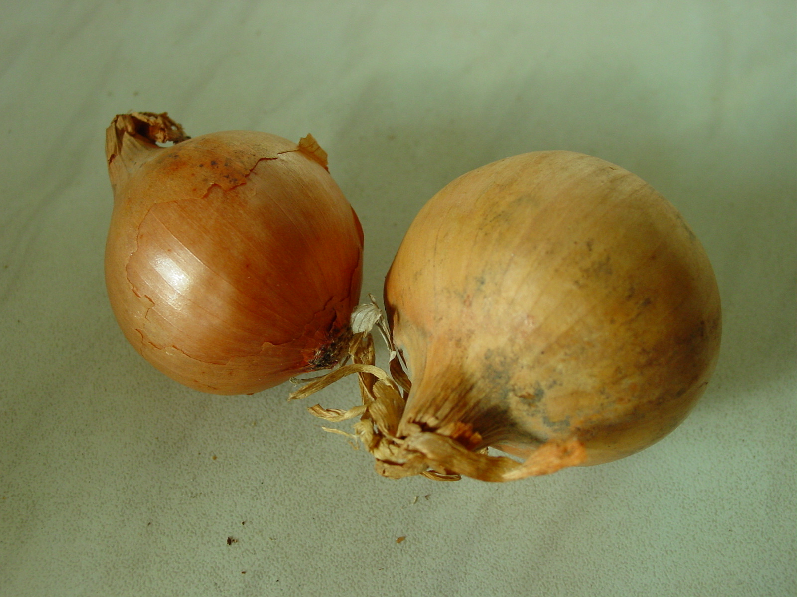 Onion